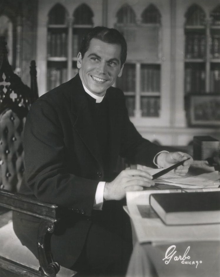 Ron Randell in Candida, Broadway, N.Y. - publicity still (cropped : see source)